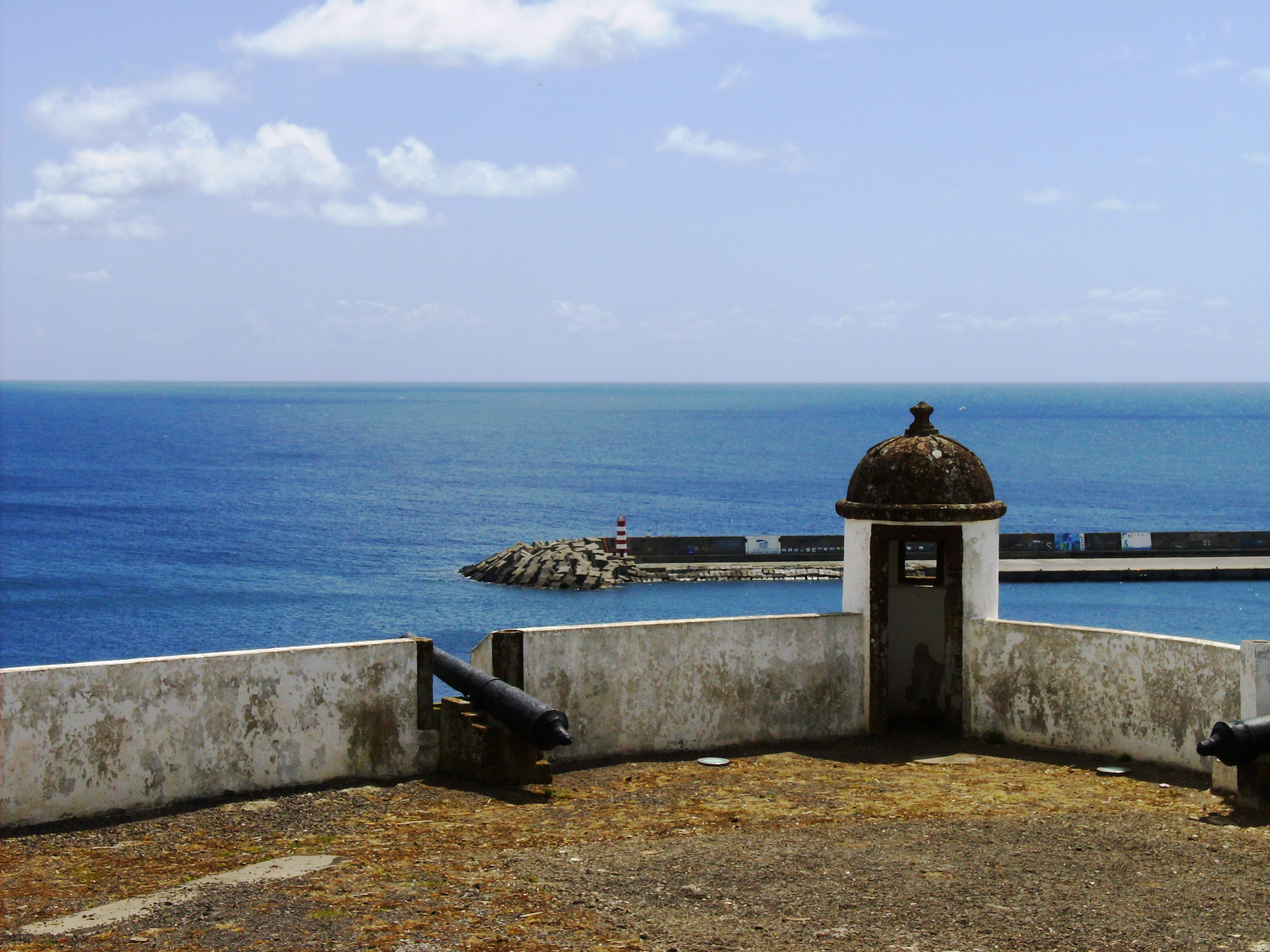 Bartizan in São Brás Fort, Vila do Porto, Santa Maria island, Azores, Portugal.